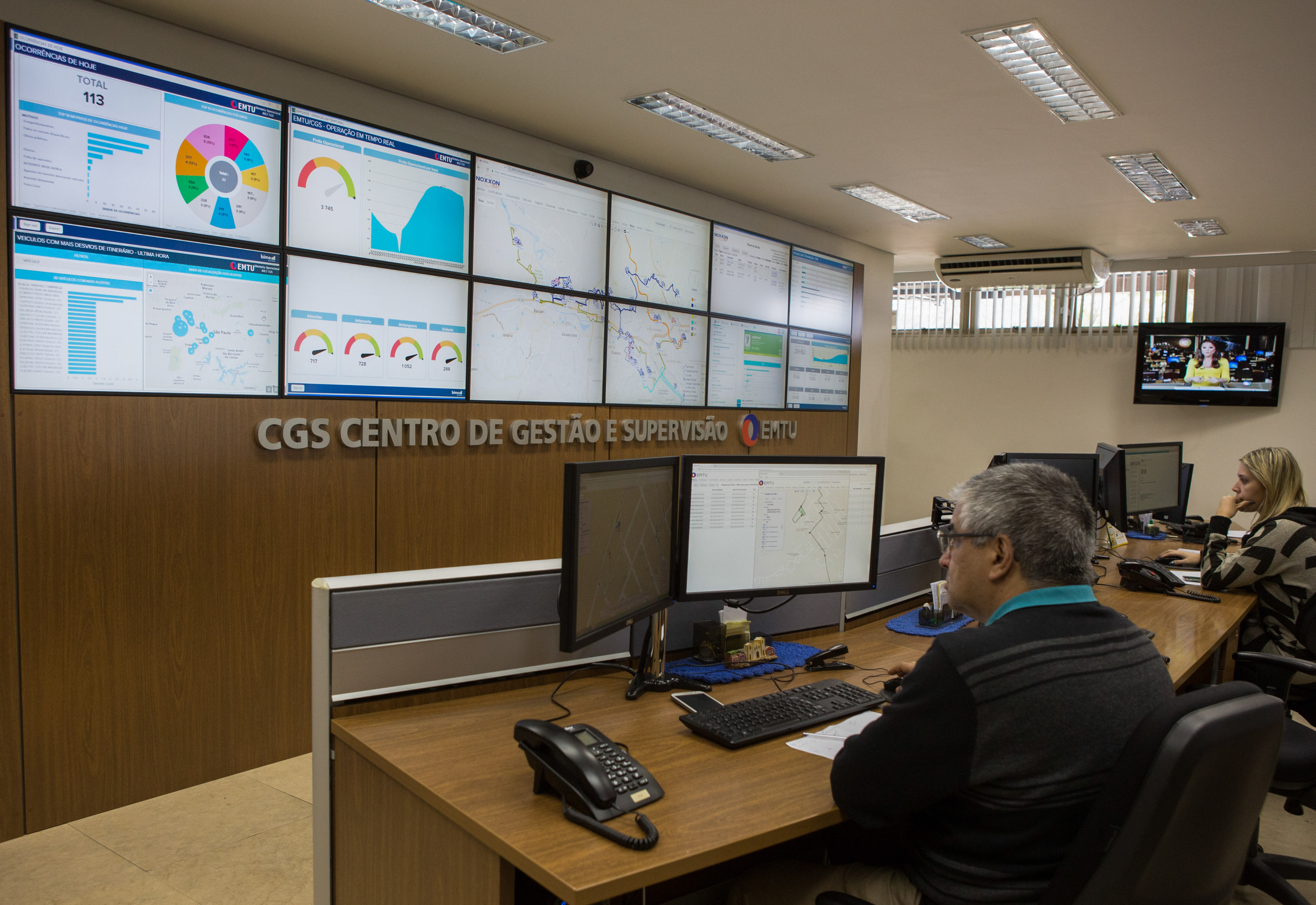 O Governador de São Paulo, entrega dez novos onibus eletricos articulados no corredor ABD. Local: São Bernardo do Campo. Data: 05/10/2016 Foto: Ciete Silvério/A2IMG